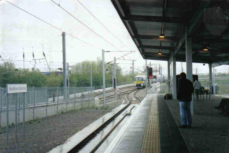 photo of heathrow junction. Heathrow Junction railway station was a short-lived railway station built to serve London Heathrow Airport in the United Kingdom Opened on 19 January 1998 and Closed 25 May 1998.